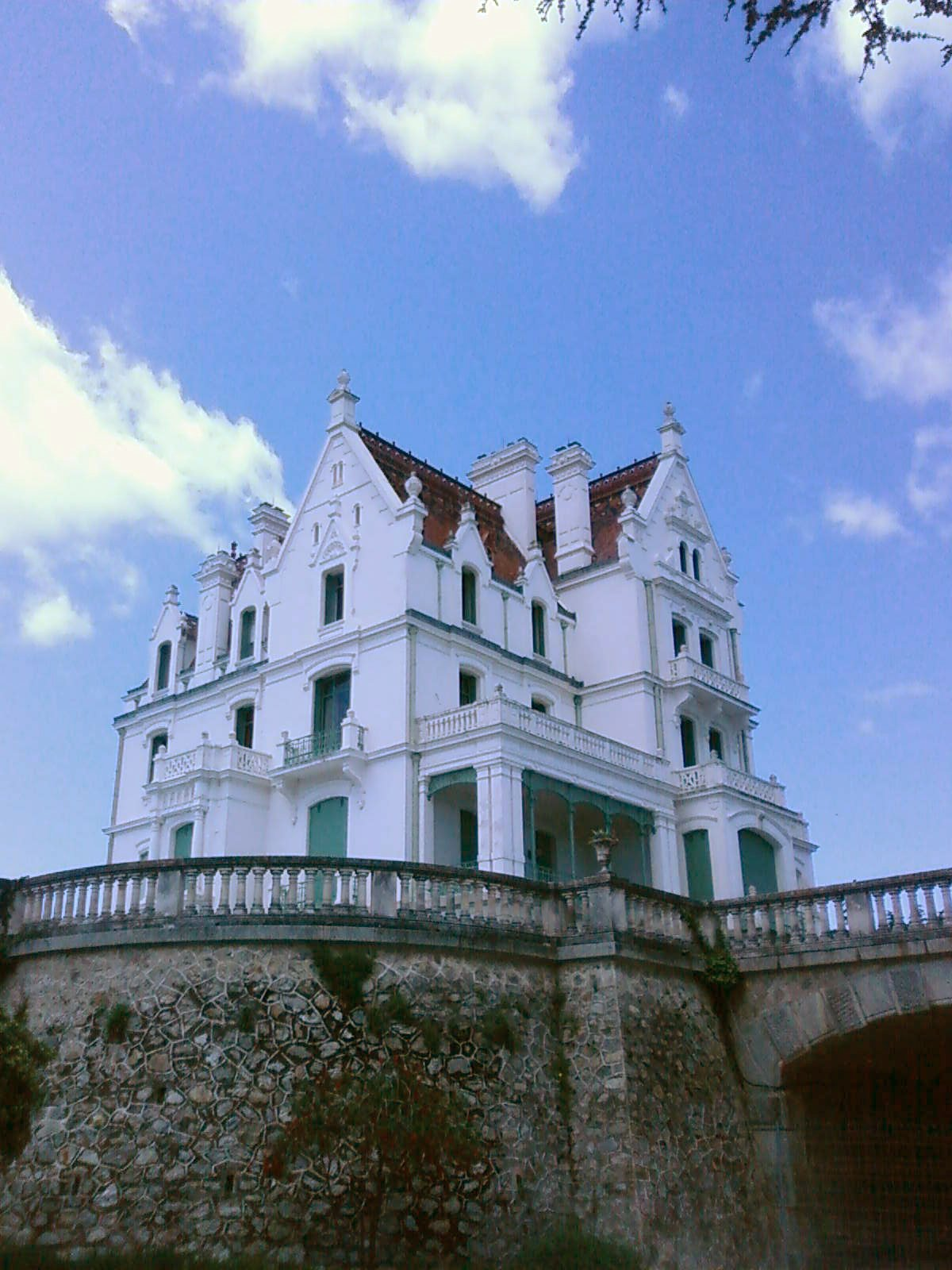 Valmy Castle, Argelès-sur-Mer